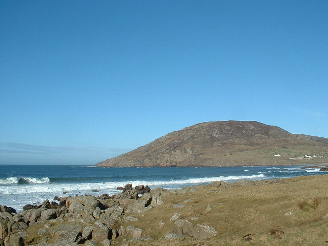 Dunaff Bay, Inishowen. Dunaff Head in the background